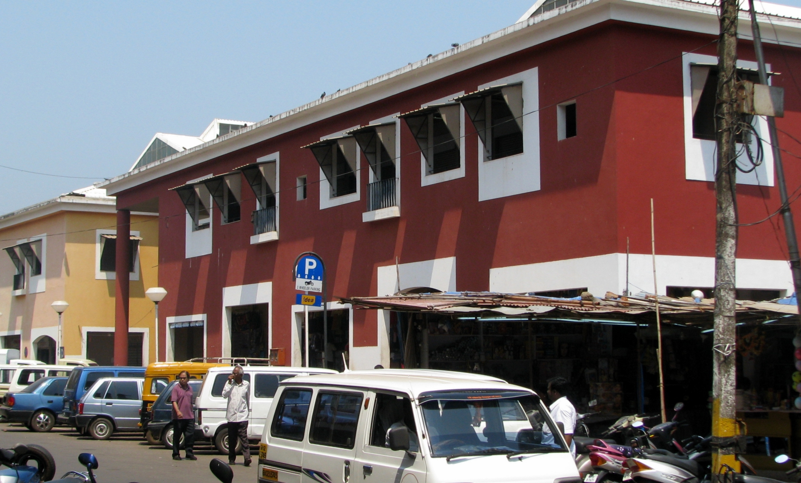 Panaji Market